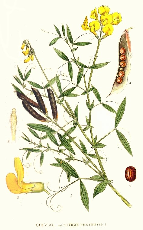 Original Description Gulvial, Lathyrus pratensis L.